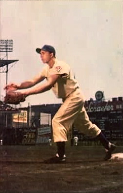 Brooklyn Dodgers first baseman Gil Hodges.